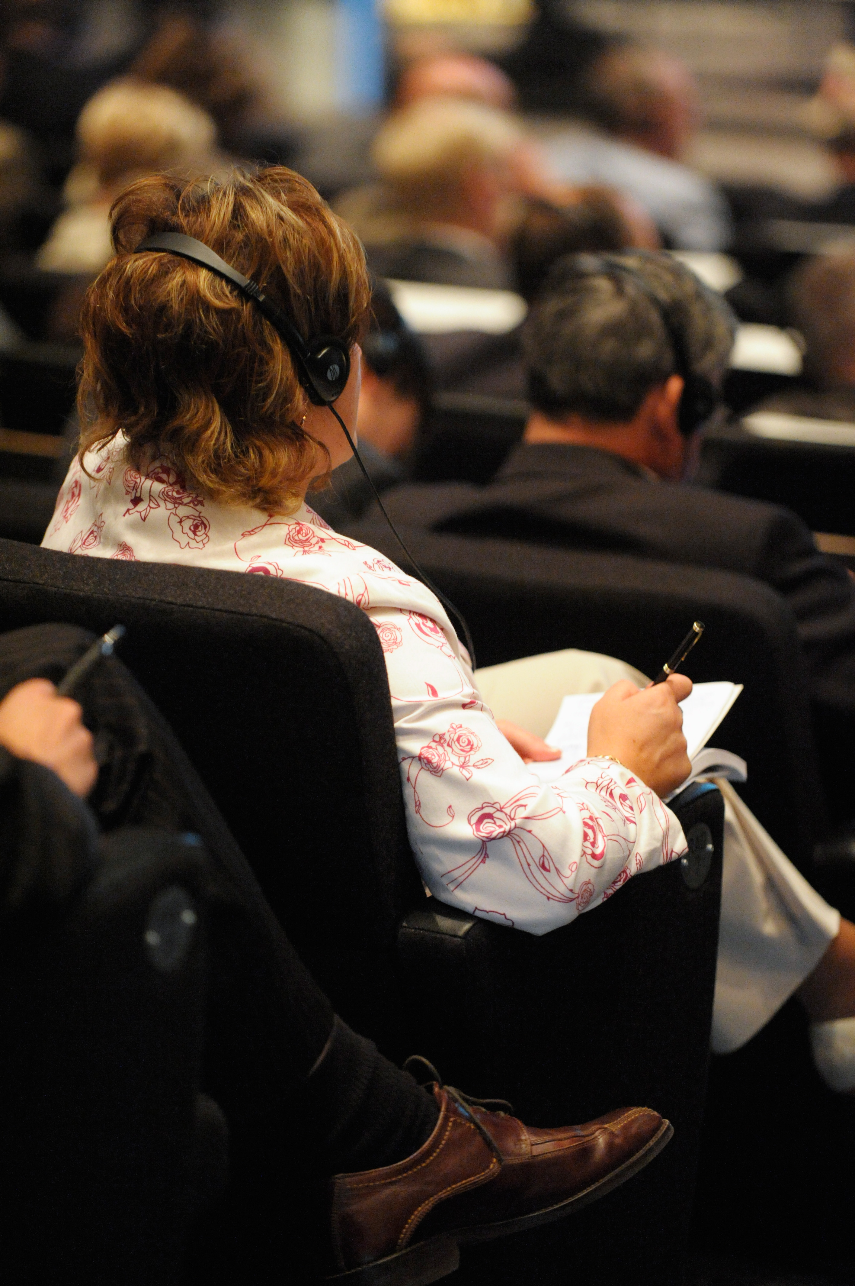 Åhörare vis BSPC:s möte i Visby 2008-09-01